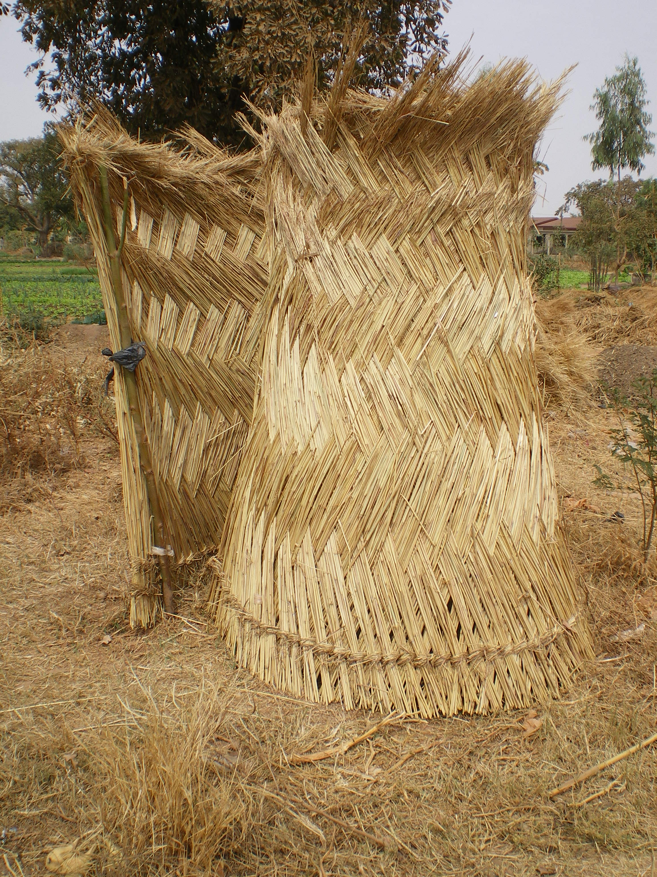 Low cost superstructures / materials